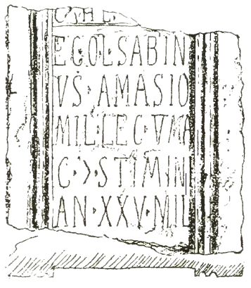 inscribed tombstones of a soldier of the Legion V Macedonica from the area of Emmaus-Nicopolis